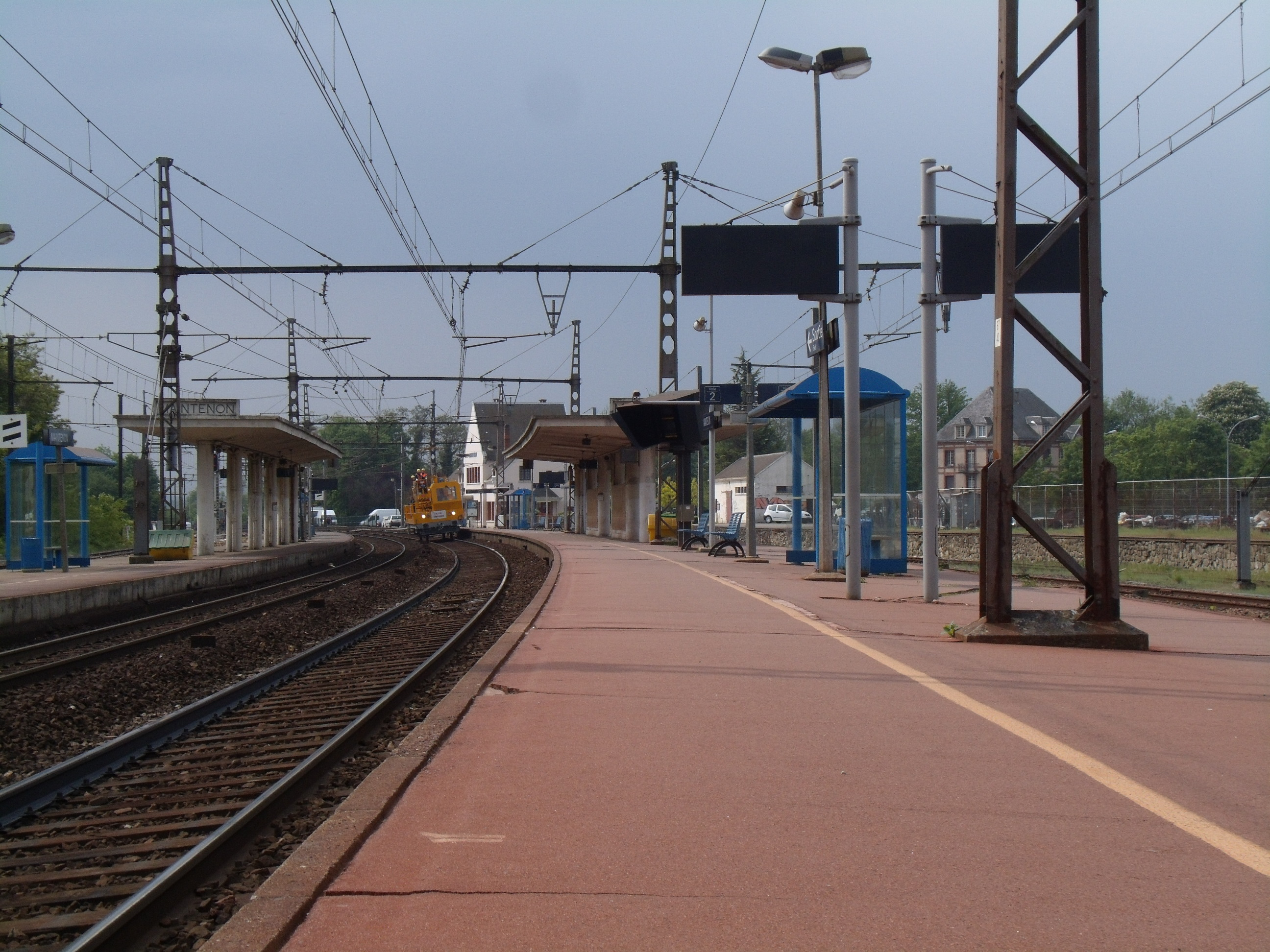 Tracks of Maintenon station toward Chartres